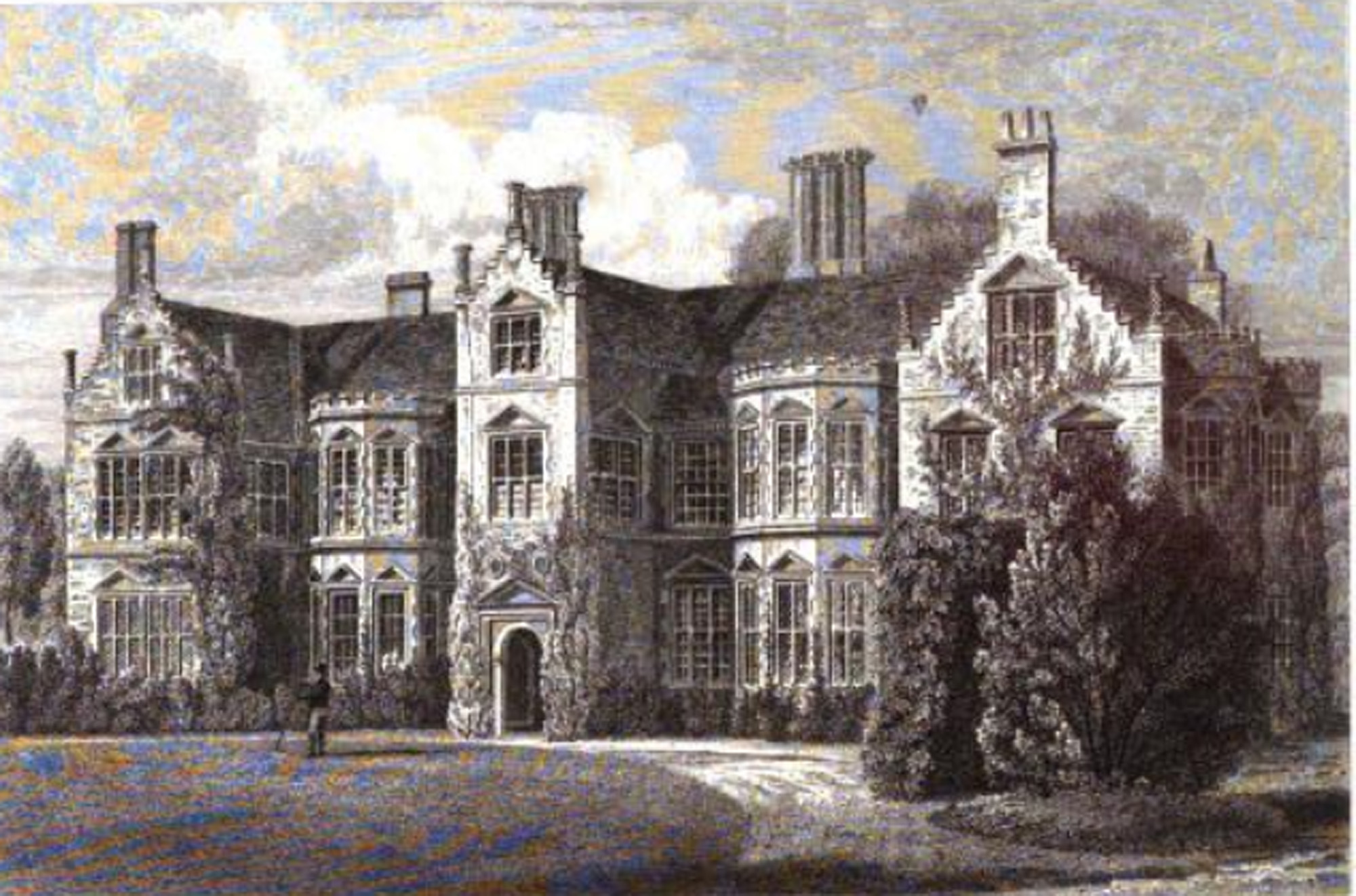 Engraving of Haughley Park 1927